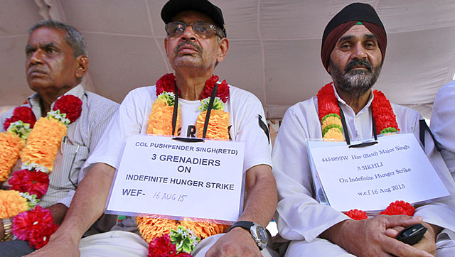 OROP fast unto death 16 August 2015